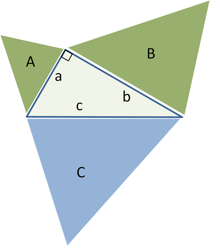 Pythagoras' theorem applied to similar triangles on the sides of a right triangle